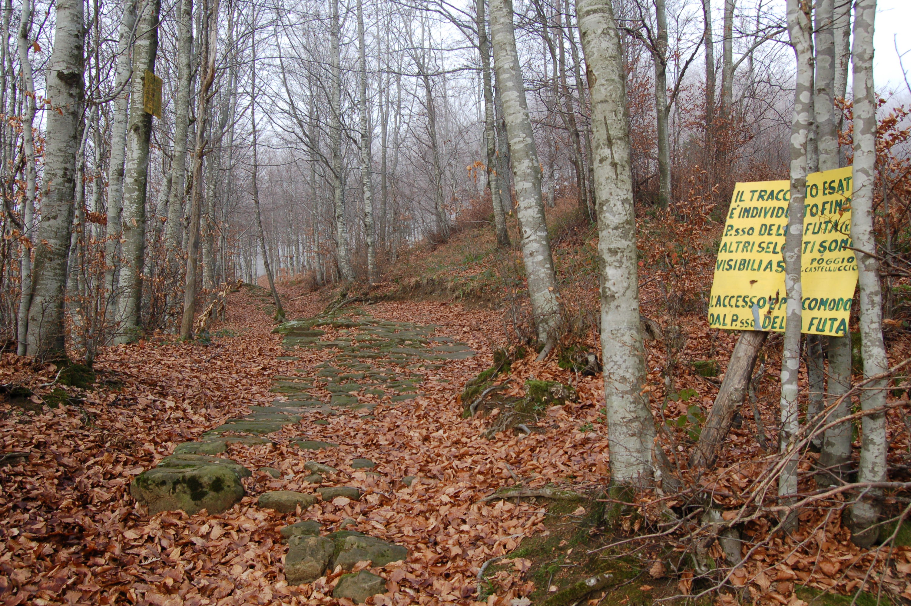 The Via Flaminia Minor, built by Ancient Roman legions around 187 BC, as it surfaces today near Pian di Balestra. Author Sandro Baldi, Bologna, Italy, camera Nikon D50 with optical standard, Step run 27/11/2006.